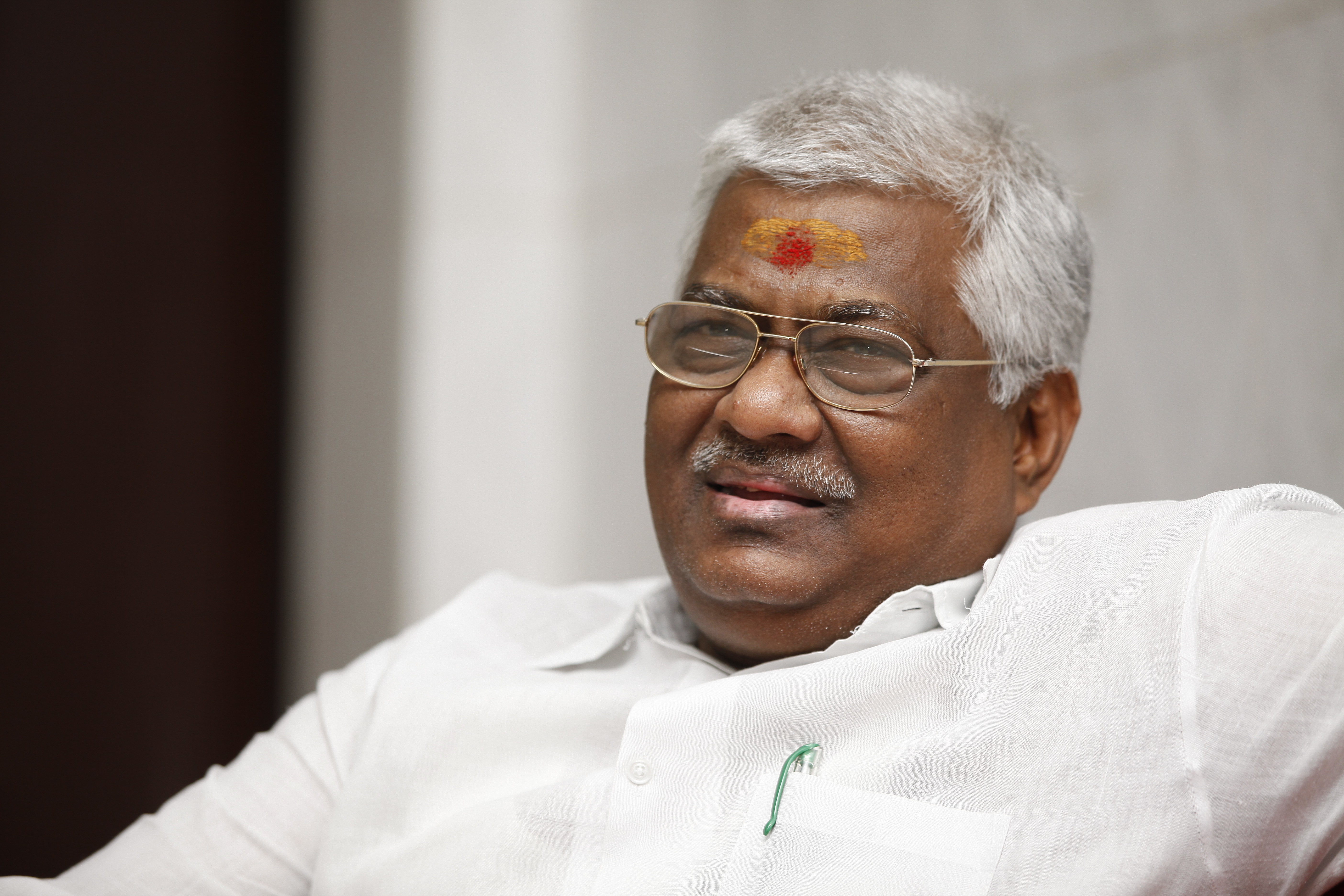 Chairman - madura travel service (P) Ltd